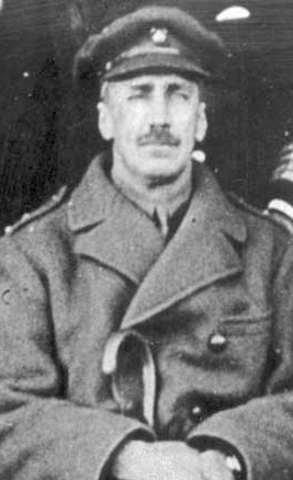 This image depicts Duncan Pitcher during World War I. It is a crop of File:Duncan le Geyt Pitcher.jpg which was taken from which bore the copyright notice: Crown Copyright 2003 and © Deltaweb International Ltd 2003. Deltaweb International Ltd's web site ( states that they first formed in 1993, some 75 years or more after this photograph was taken, and so the extent of their copyright claim cannot cover this photograph; it presumably relates to the design of the page in which this photograph sat. Therefore this photograph is now in the public domain.